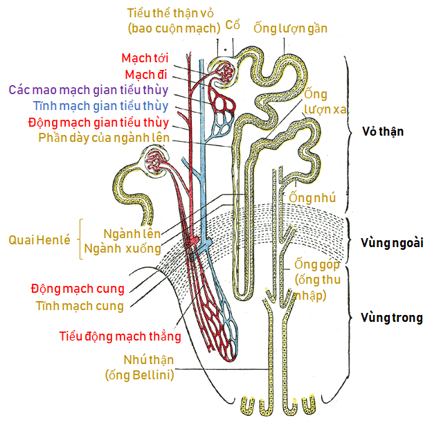 Translated into Vietnamese